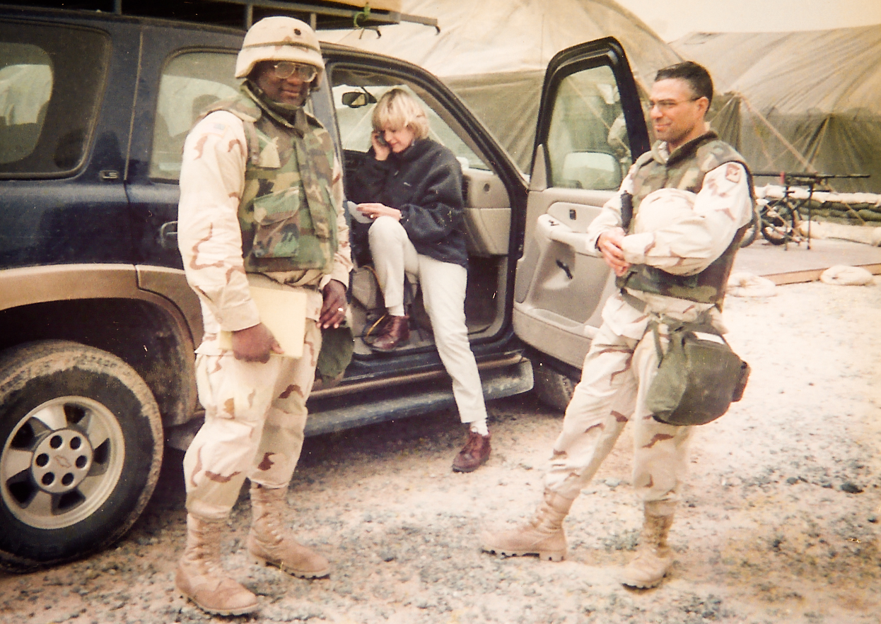 Dr. Raymond Costabile in fatigue uniform during his deployment in Iraq